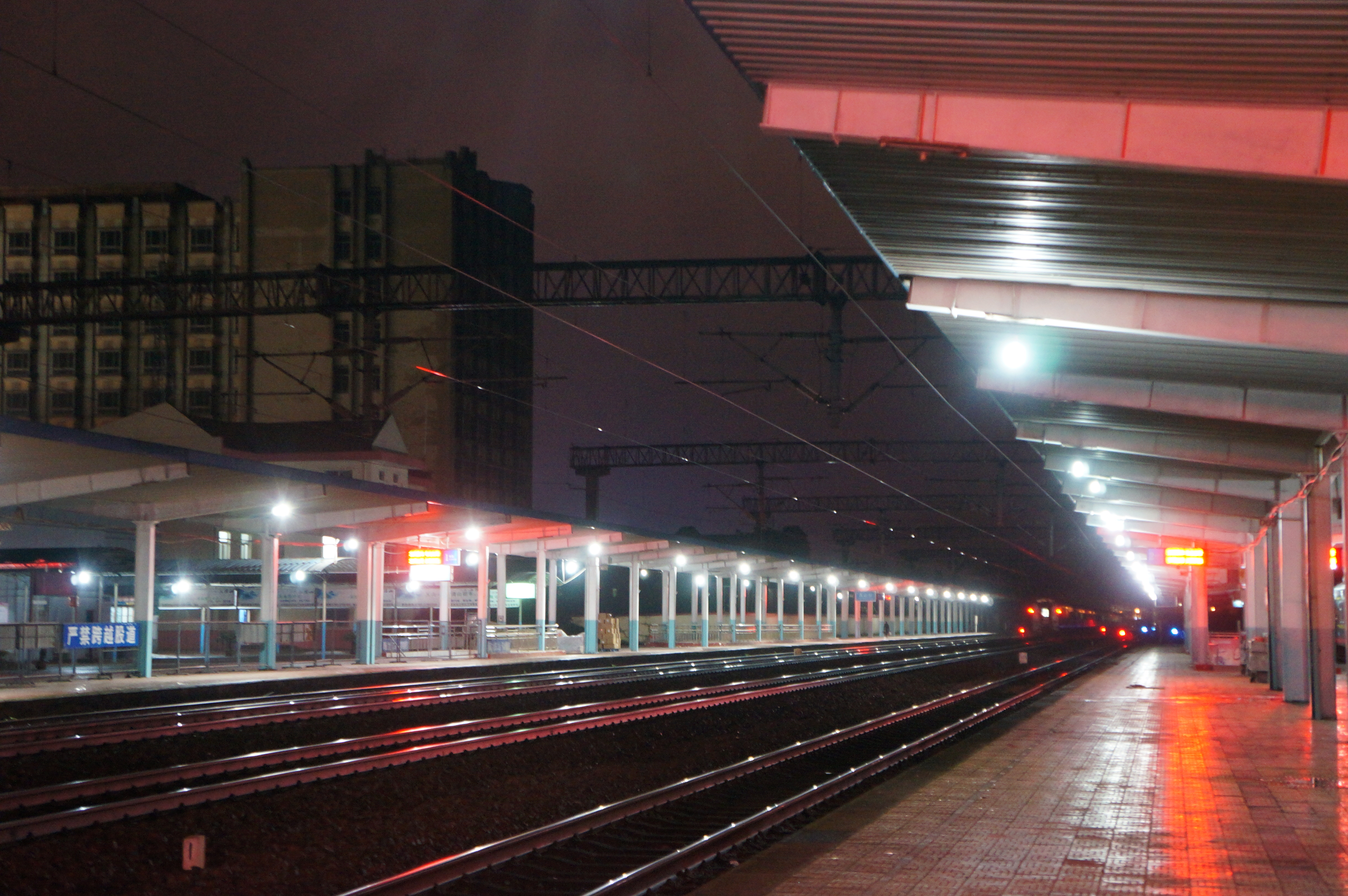 201612 Tracks at Yushan Station